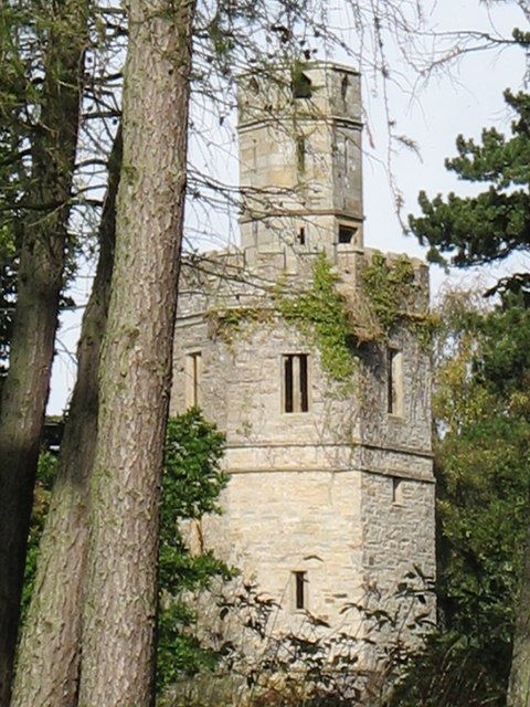 Bolton Hall Tower This looks to be a folly tower in the grounds of Bolton Hall, it can be seen from the footpath that runs by the house